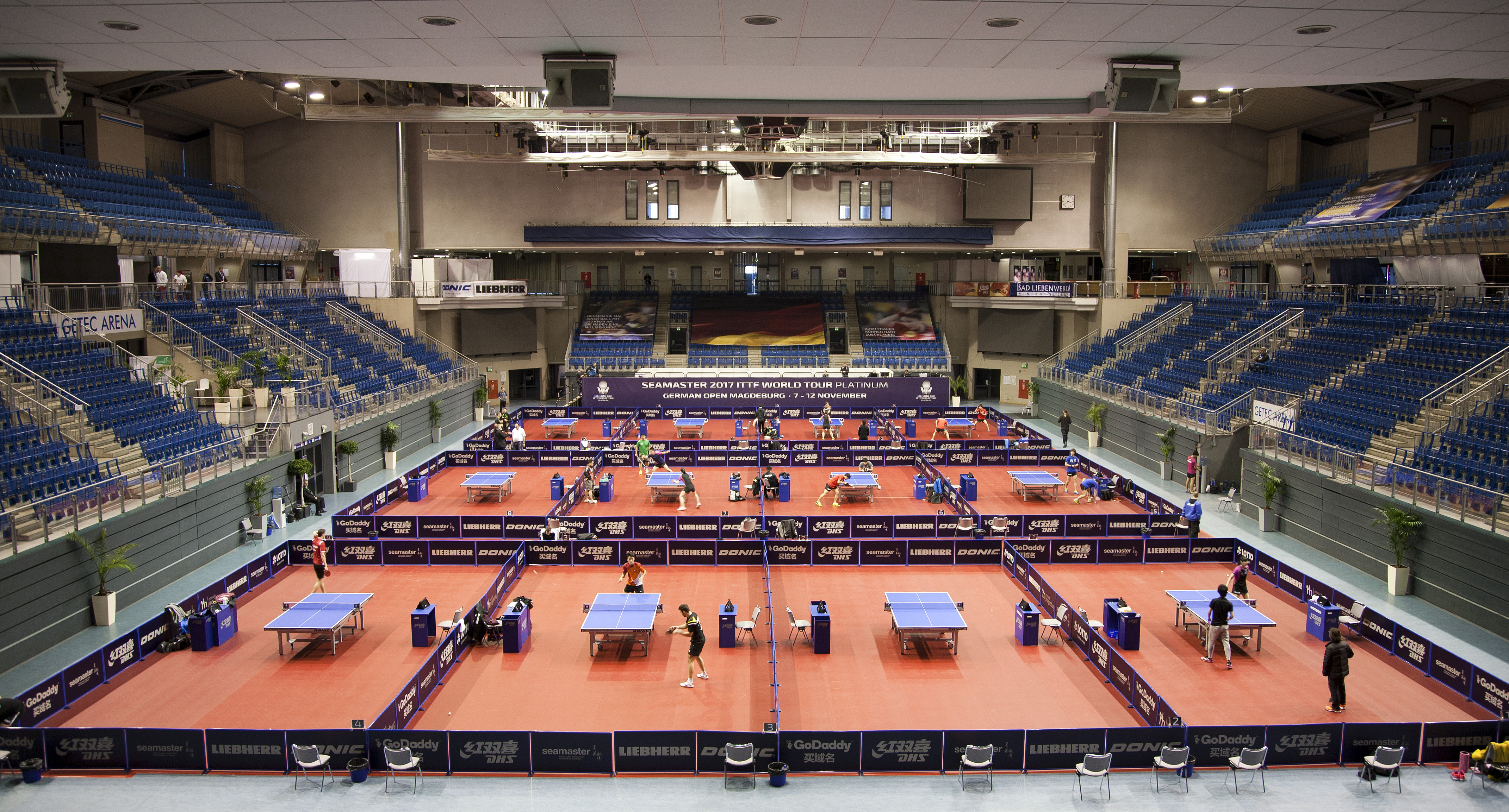 ITTF World Tour 2017 German Open, Magdeburg, Germany, 7 Nov 2017 - 12 Nov 2017